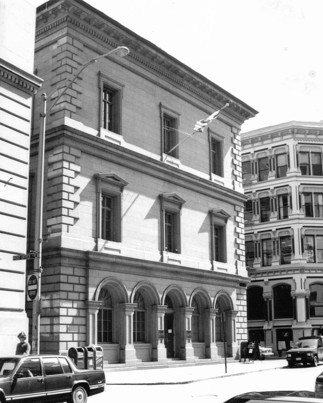 John E. Fogarty Judicial Annex, Providence, RI